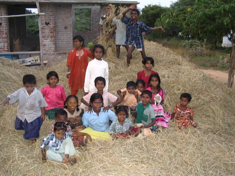 Children in a Dalit village near Madurai, Tamil Nadu, India